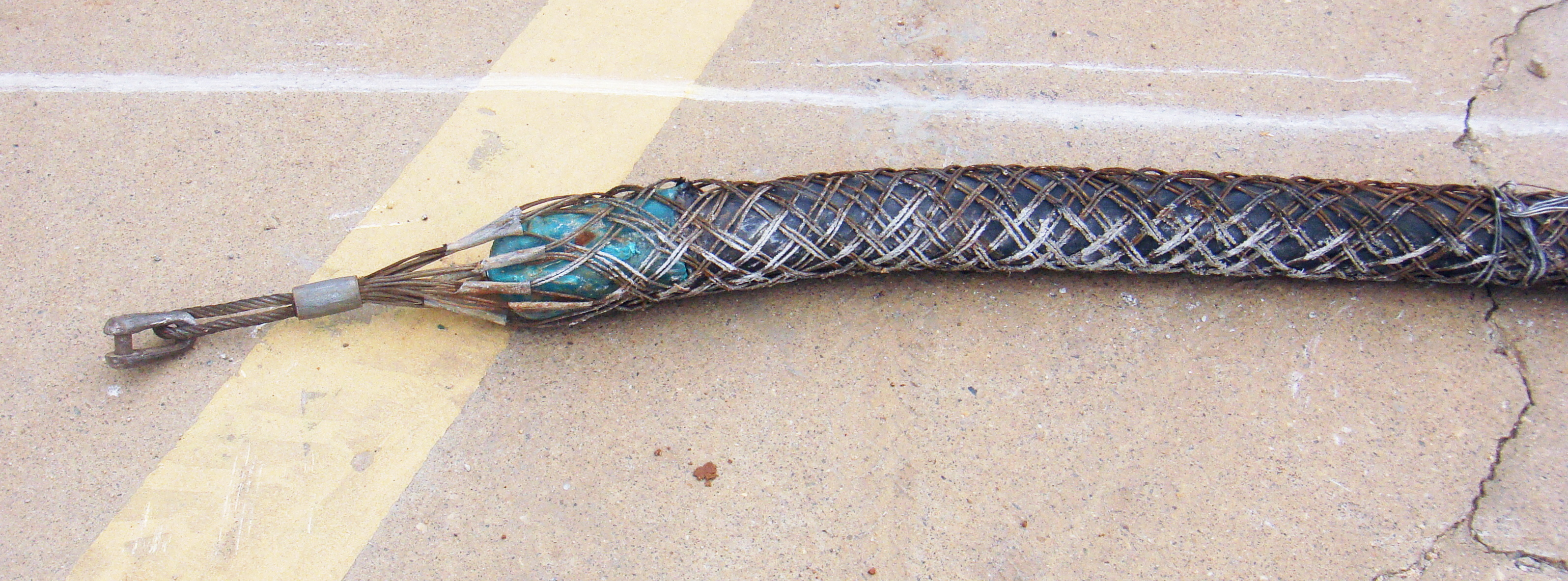 Towing sock. A device similar to a Chinese finger trap to seize a the end of a cable to thread it through a tube or tunnel, Haikou, Hainan, China